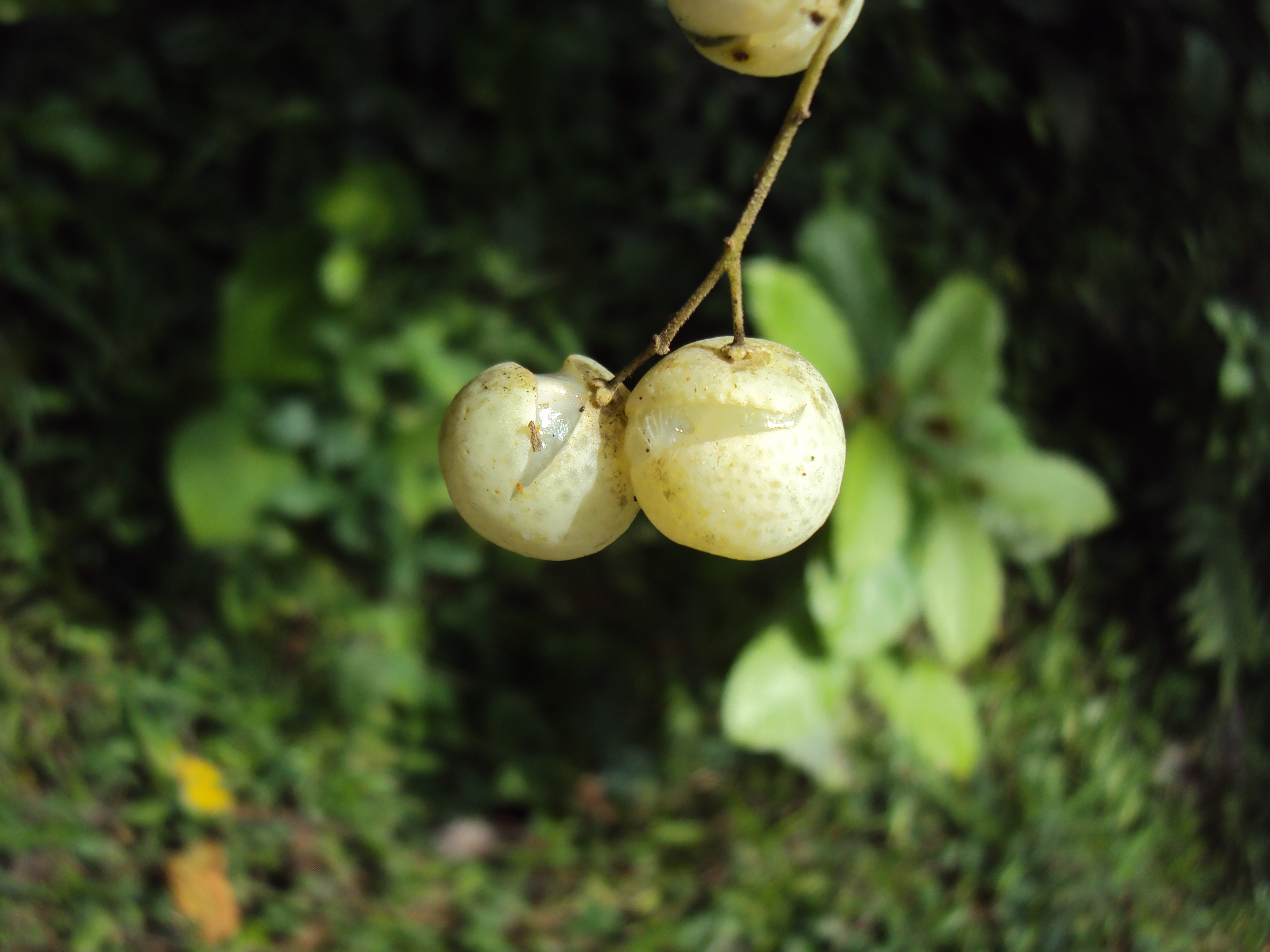 Photos from 2014 by Vinayaraj